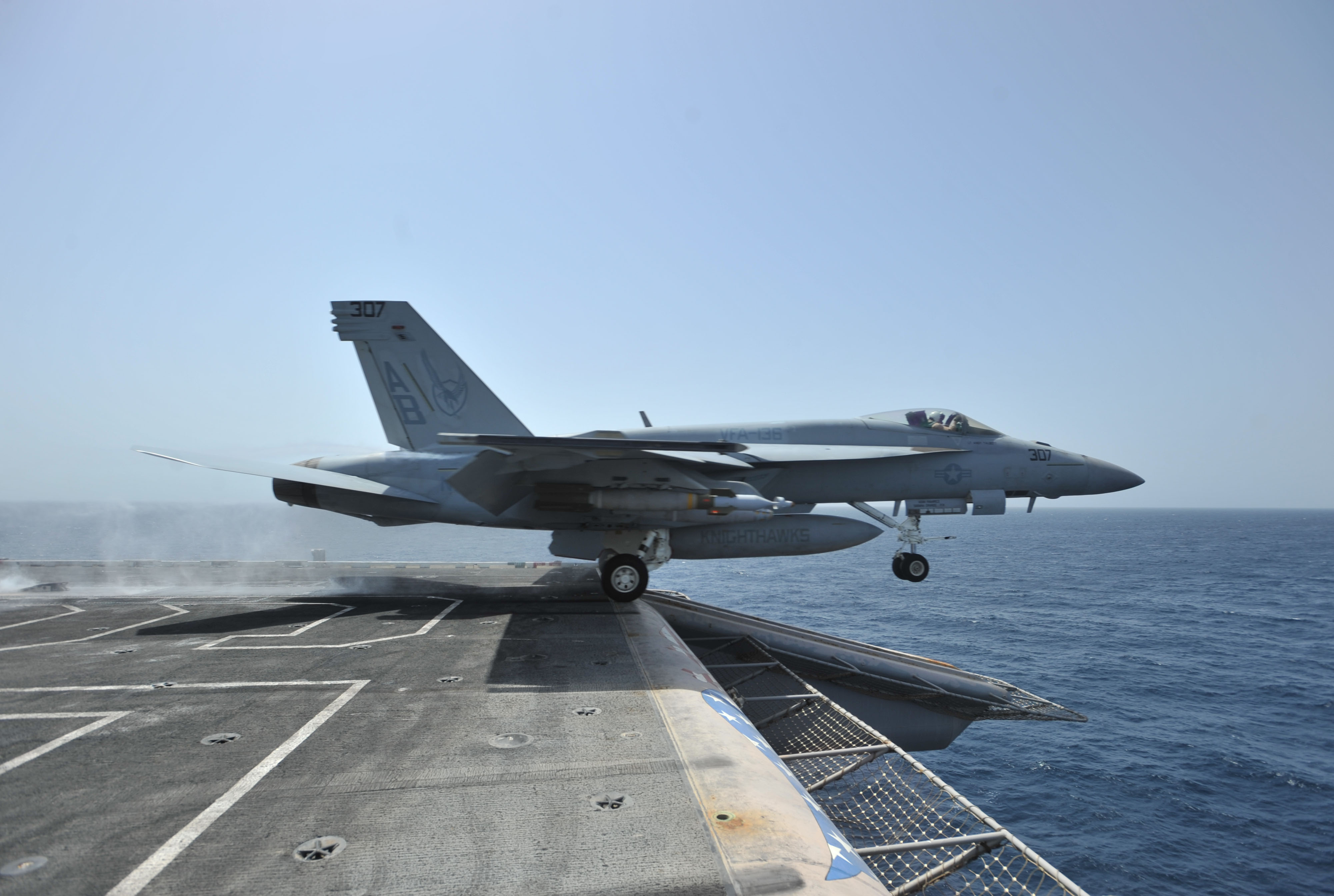 ARABIAN SEA (March 28, 2011) An F/A-18E Super Hornet assigned to the Knighthawks of Strike Fighter Squadron (VFA) 136 launches from the aircraft carrier USS Enterprise (CVN 65). Enterprise and Carrier Air Wing (CVW) 1 are conducting close-air support missions as part of Operation Enduring Freedom. (U.S. Navy photo by Mass Communication Specialist Seaman Jared M. King/Released)